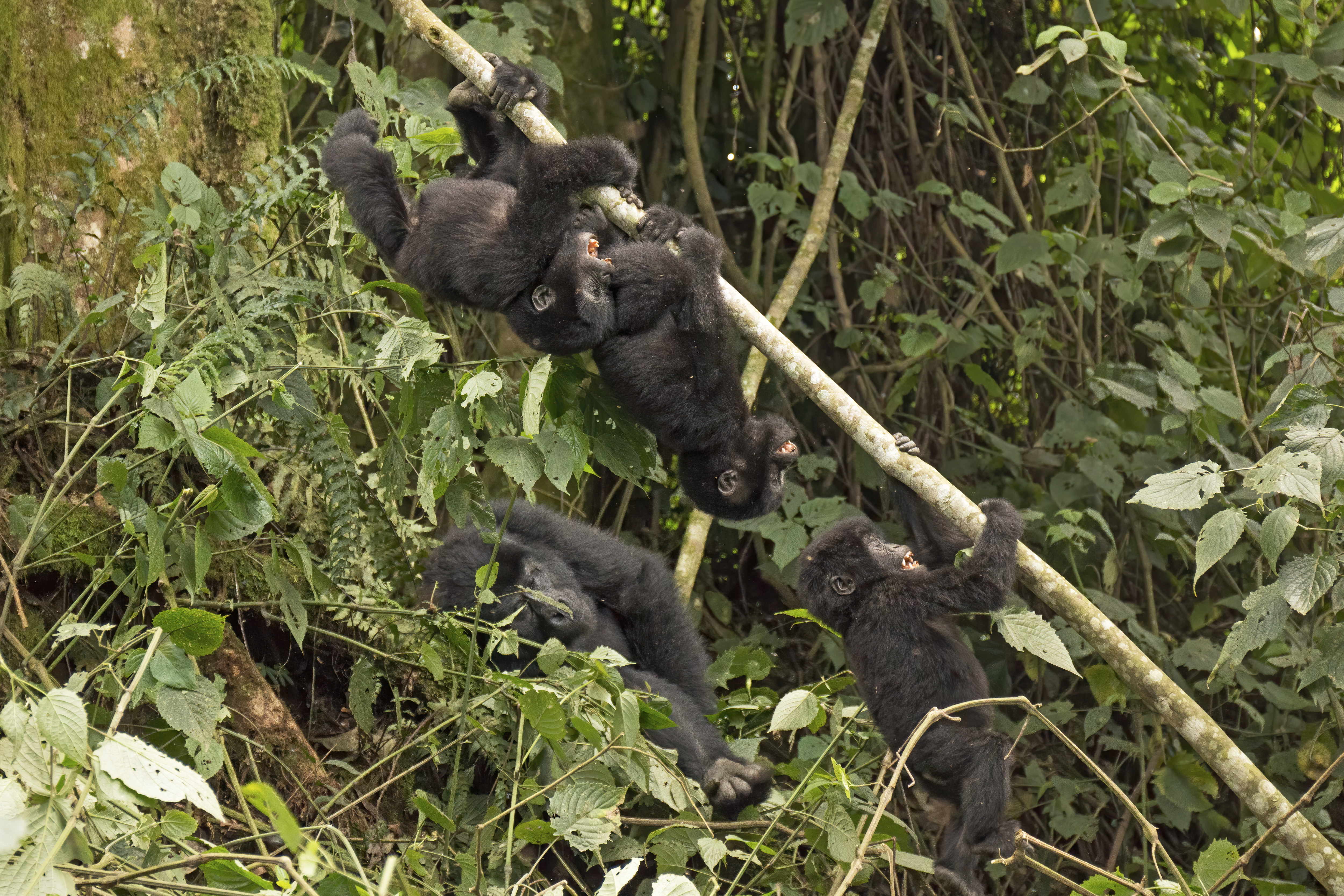 Mountain gorillas (Gorilla beringei beringei) , Mubare Group, Uganda. Three two-year-olds playing.